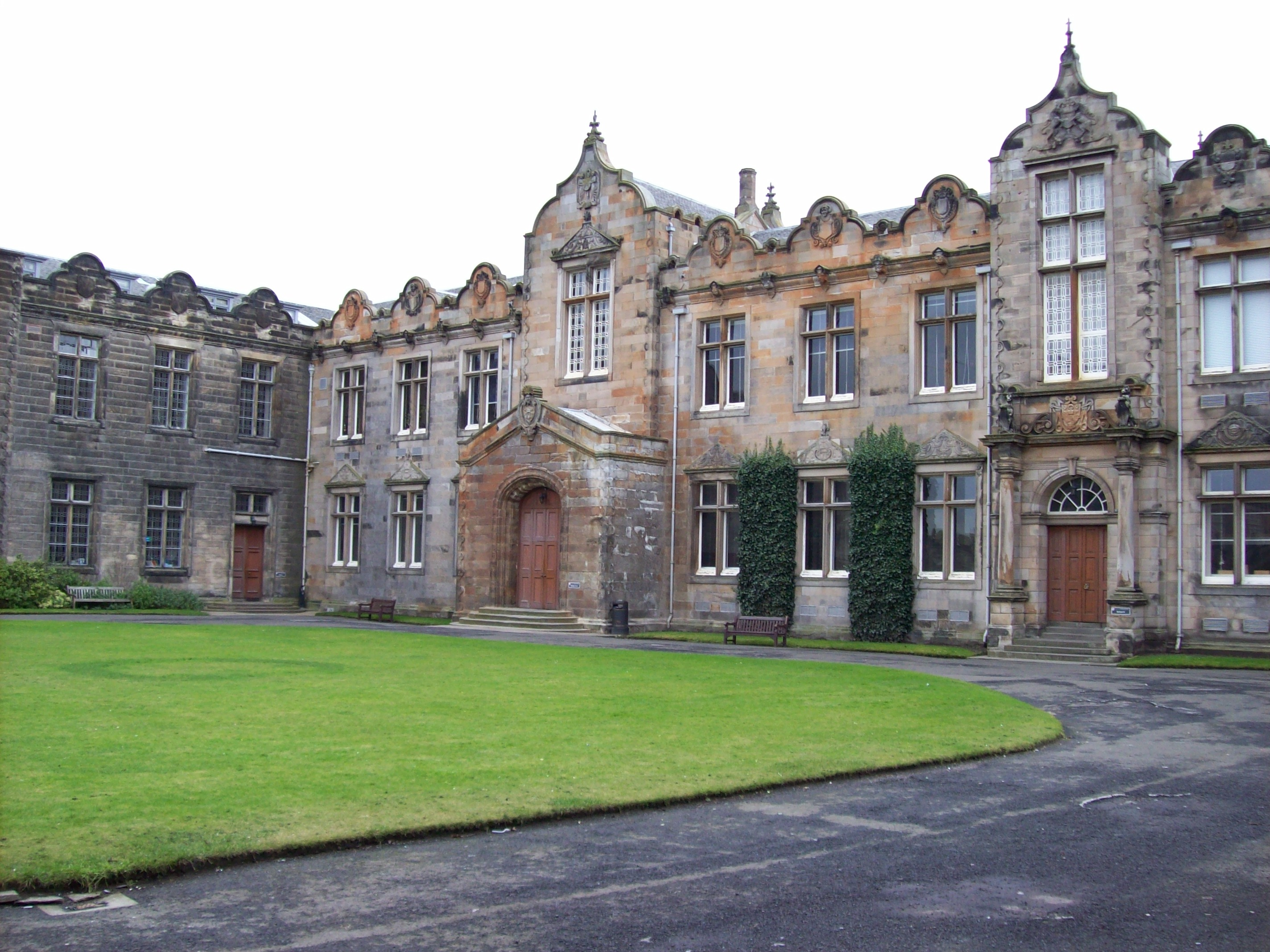 View across St Salvator's Quad, University of St Andrews.